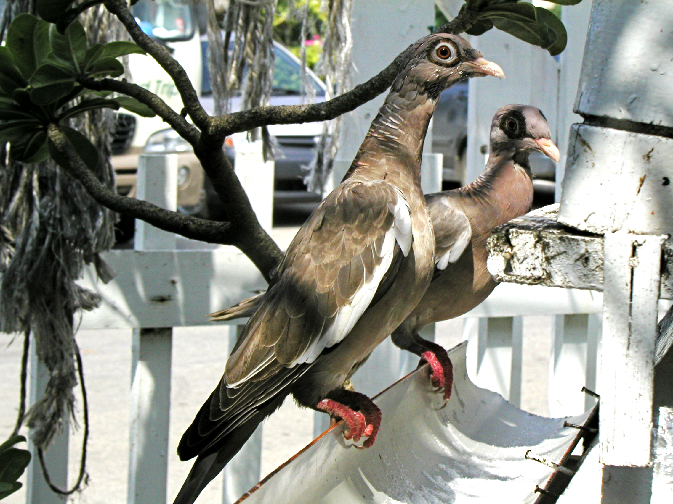 Bare-eyed pigeon Patagioenas corensis Original description: Bare-eyed pigeons in Curacao have characteristic black circle around their eyes.